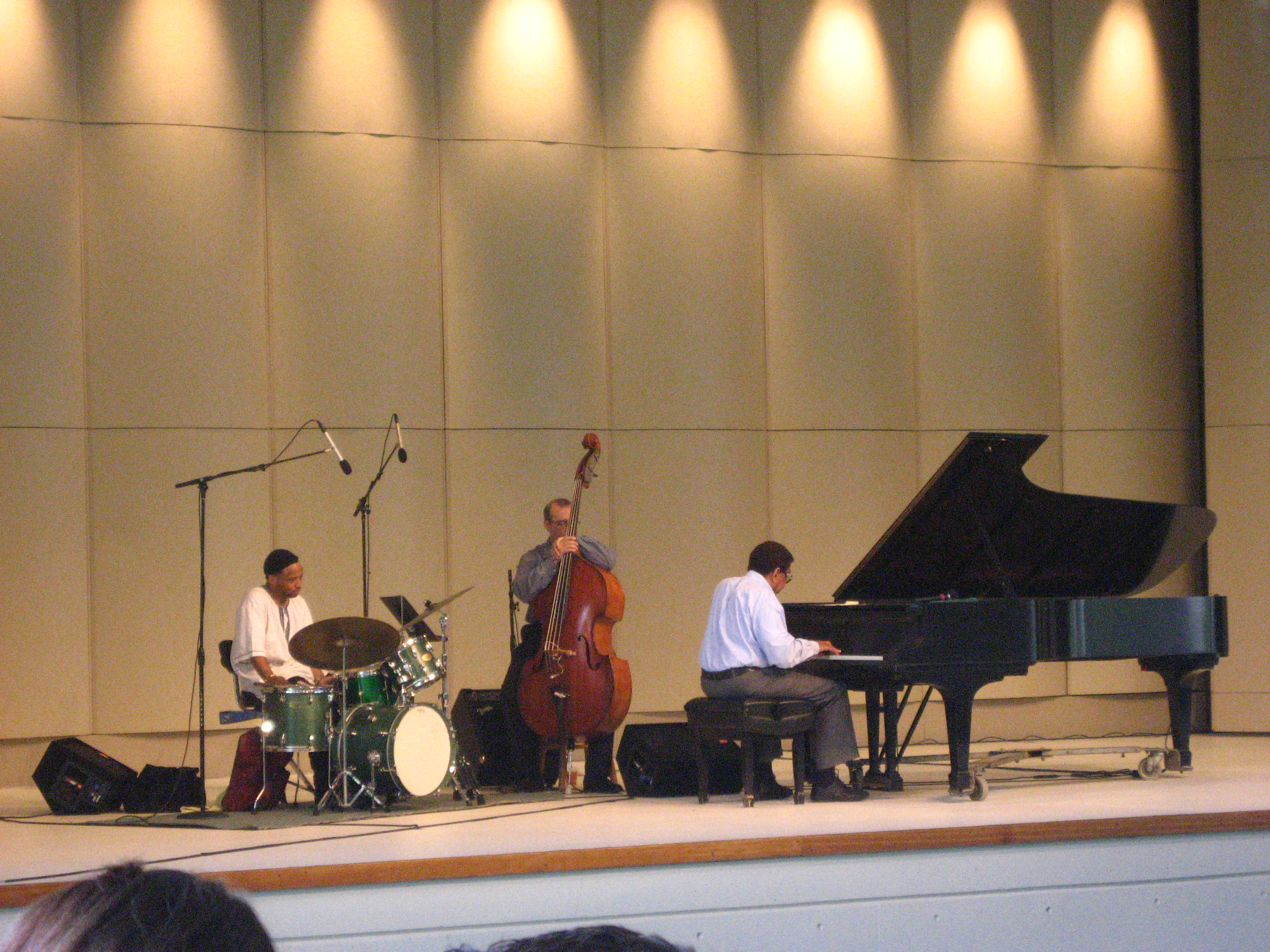 Billy Taylor at Usdan. Piano Solo